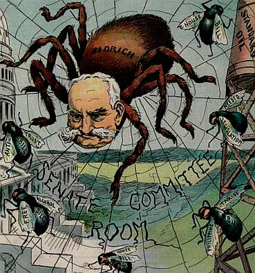 Caption: "Killed in committee." Senator Nelson Aldrich depicted as evil power of the United States Senate.